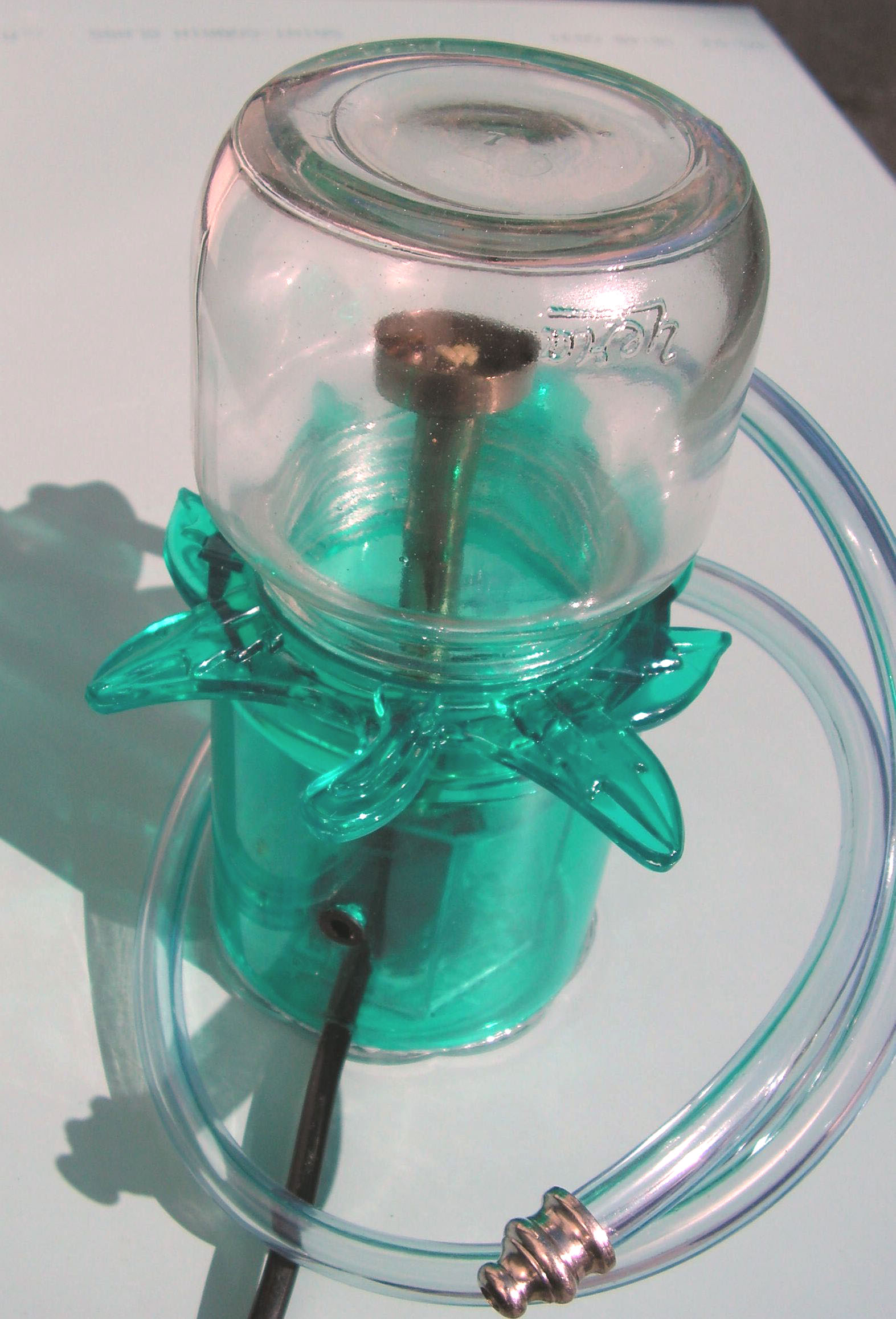 A low end conduction style vaporizers for marijuana or similar uses.